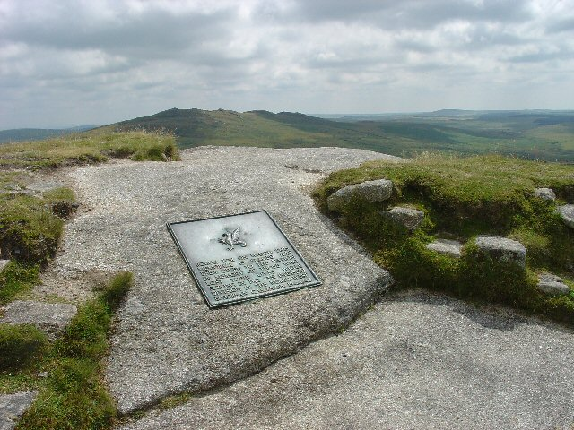 WW2 Memorial to the 43rd Wessex Division, Summit of Rough Tor, Bodmin Moor, Cornwall. A brass plaque on the summit. Brown Willy in the background.